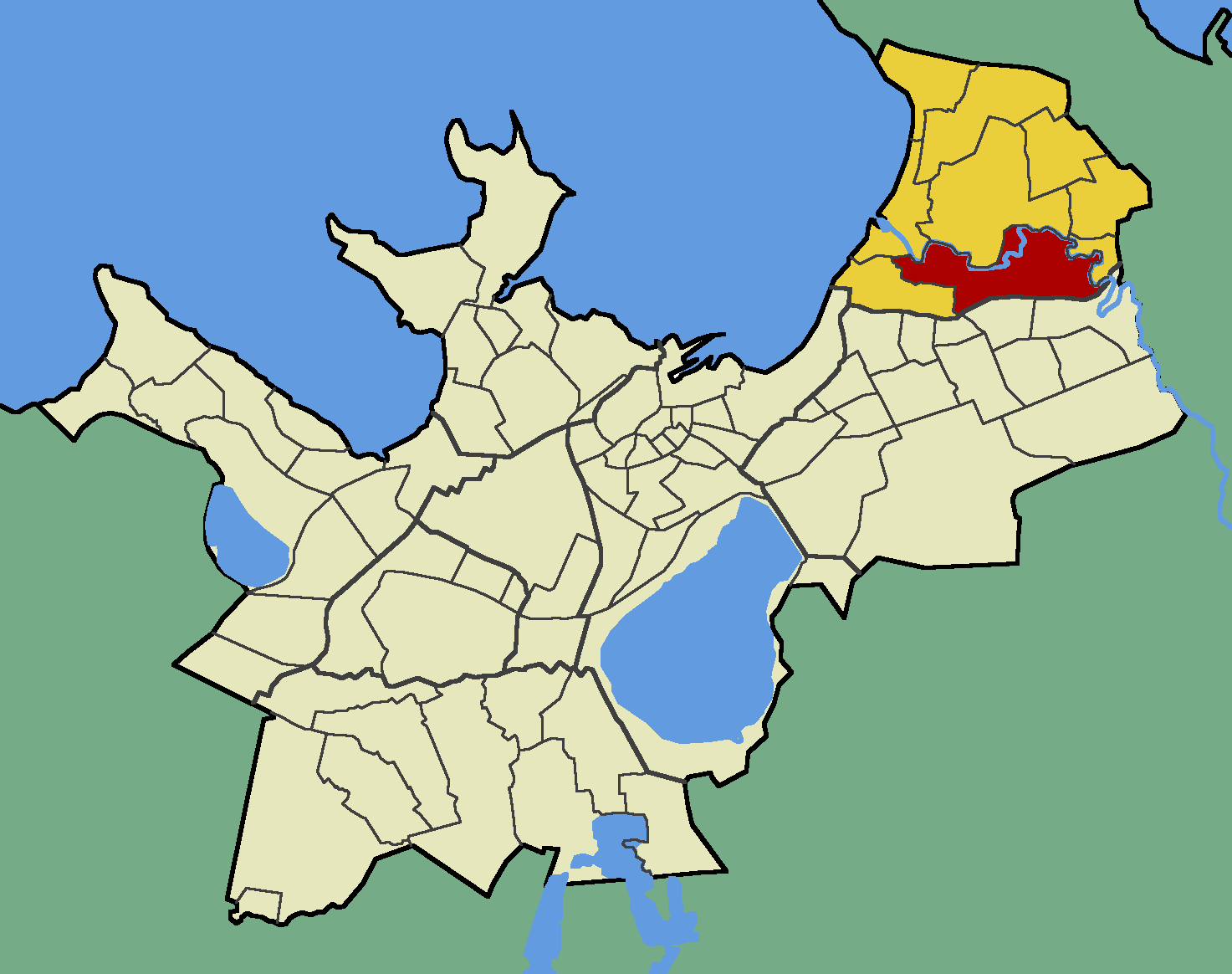 Map of Tallinn (Estonia) with borders of the quarters, Pirita district and Kose quarter emphasised